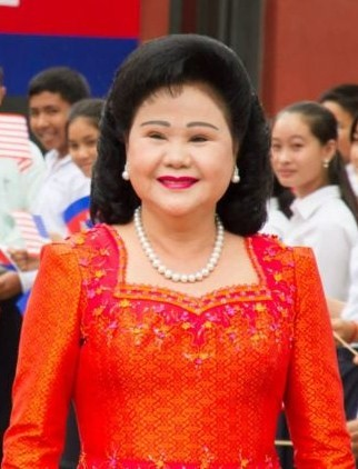 US First Lady Michelle Obama arrived with Cambodian first lady Bun Rany at Hun Sen Prasat Bakong Hight School, around 40 Kilometer outside of Siem Reap town, Saturday, March 21, 2015, to promote her “Let Girls Learn” initiative.